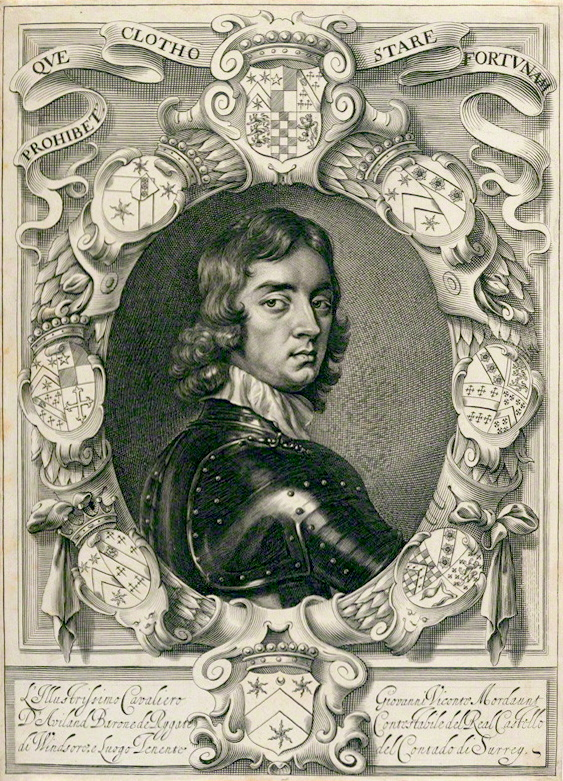 John Mordaunt, 1st Viscount Mordaunt (1626-1675)